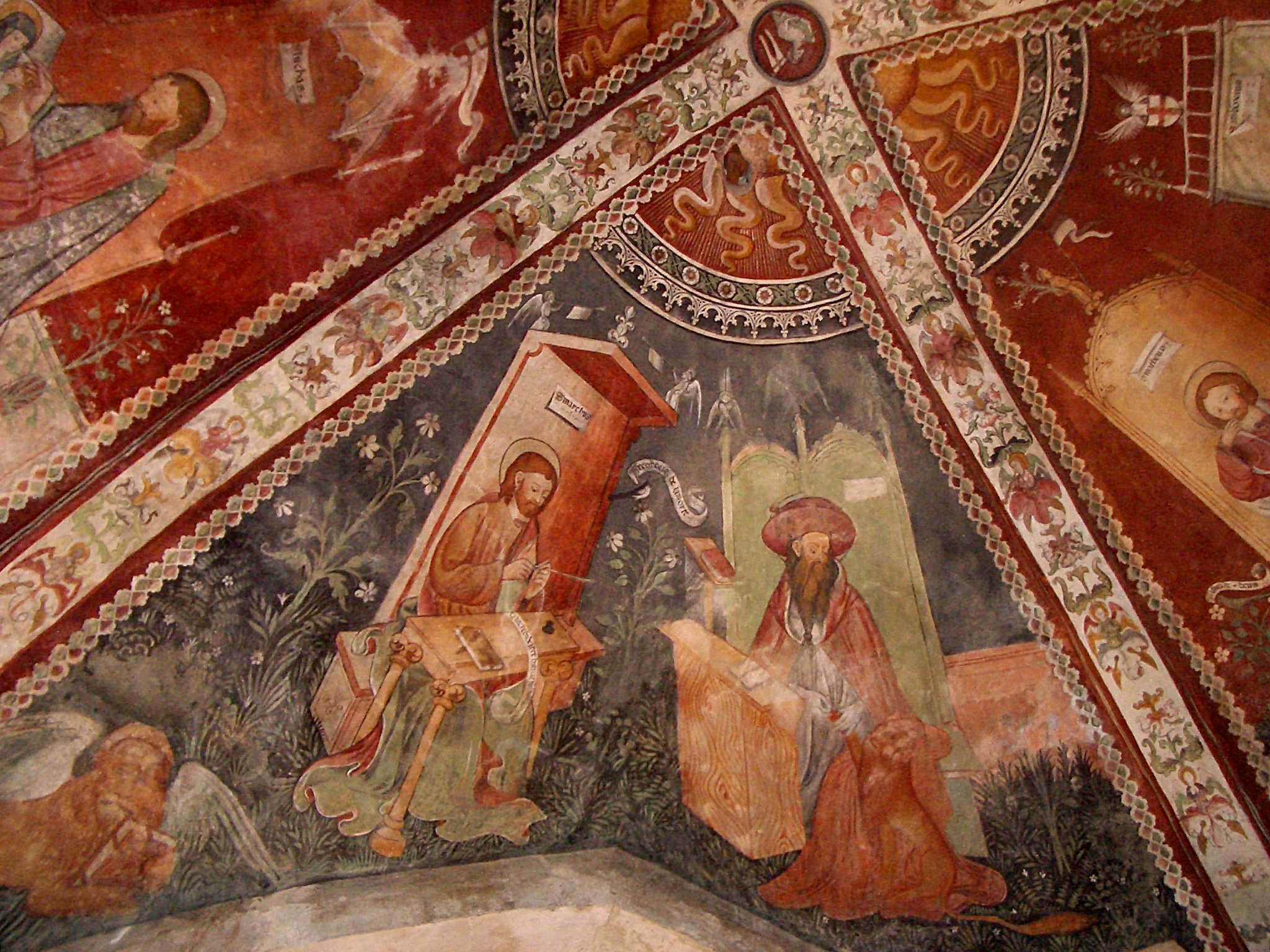 Rocca Canavese, Santa Croce chapel, fresco in the vault representing an Evangelist (St. Mark) and a Doctor of the Church (St. Jerome)